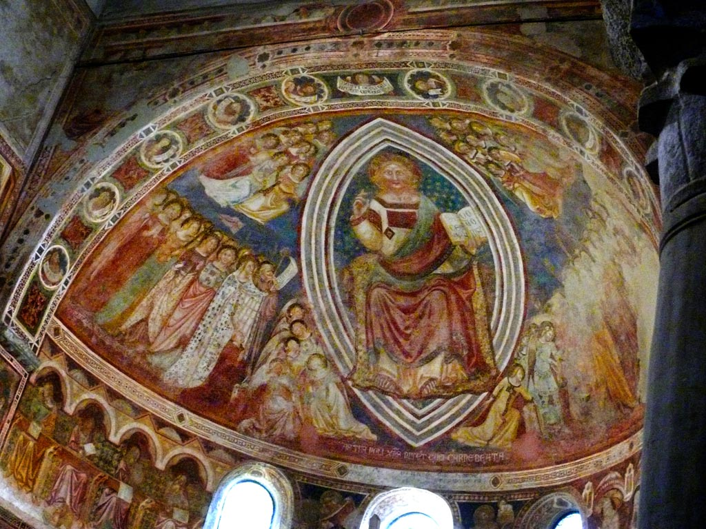 Abbazia di Pomposa: Detail of the apse fresco, "Christ in Glory with Angels", attributed to Vitale da Bologna, 14th century.